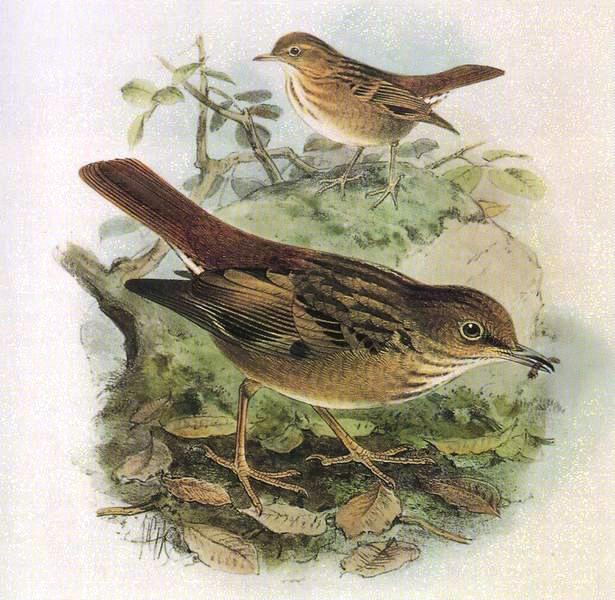 Hand-coloured lithograph by J.G. Keulemans from H. Seebolm's Monograph of the Turdidae (1902).